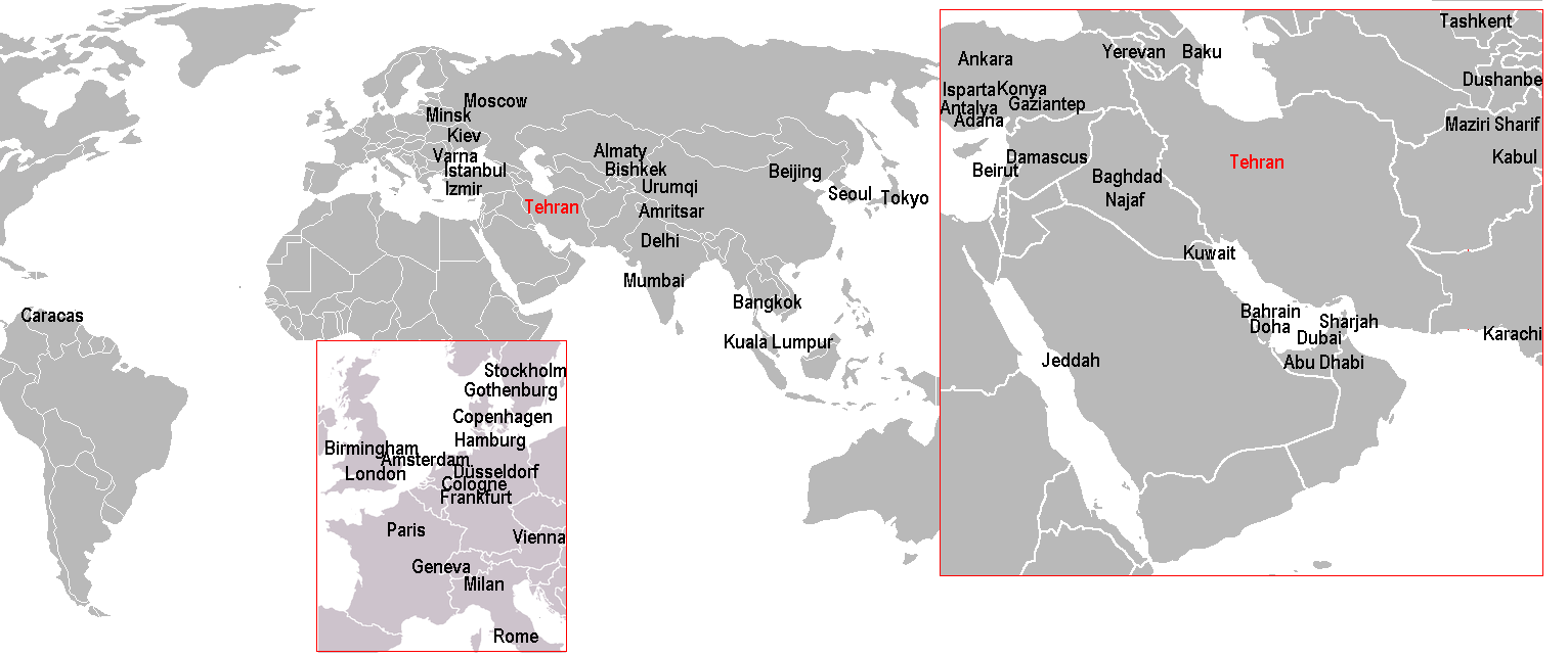 Cities with direct passenger airlinks to Tehran Imam Khomeini International Airport, November 2009